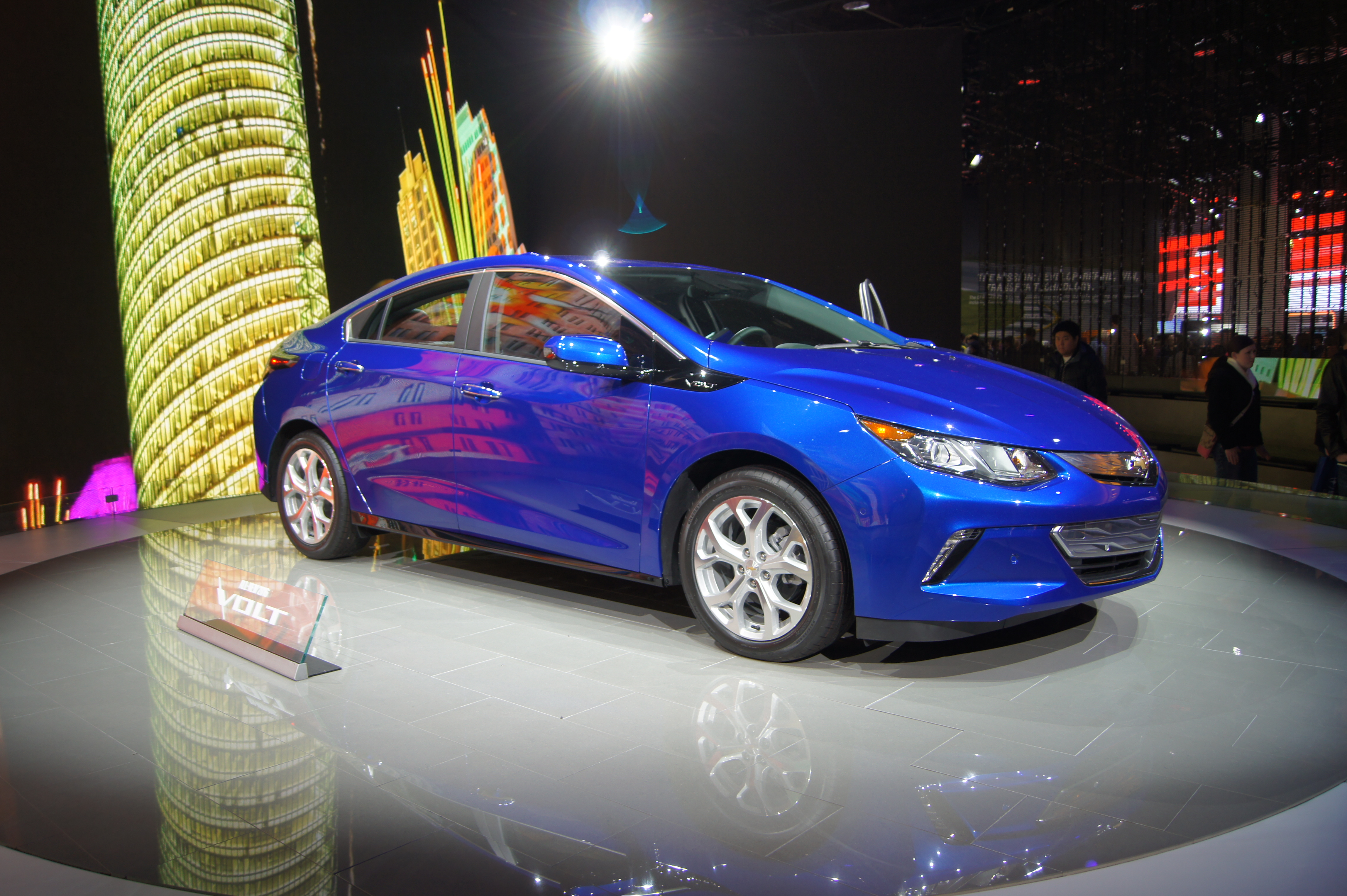 2016 Chevrolet Volt (second generation) unveiled at the January 2015 North American International Auto Show